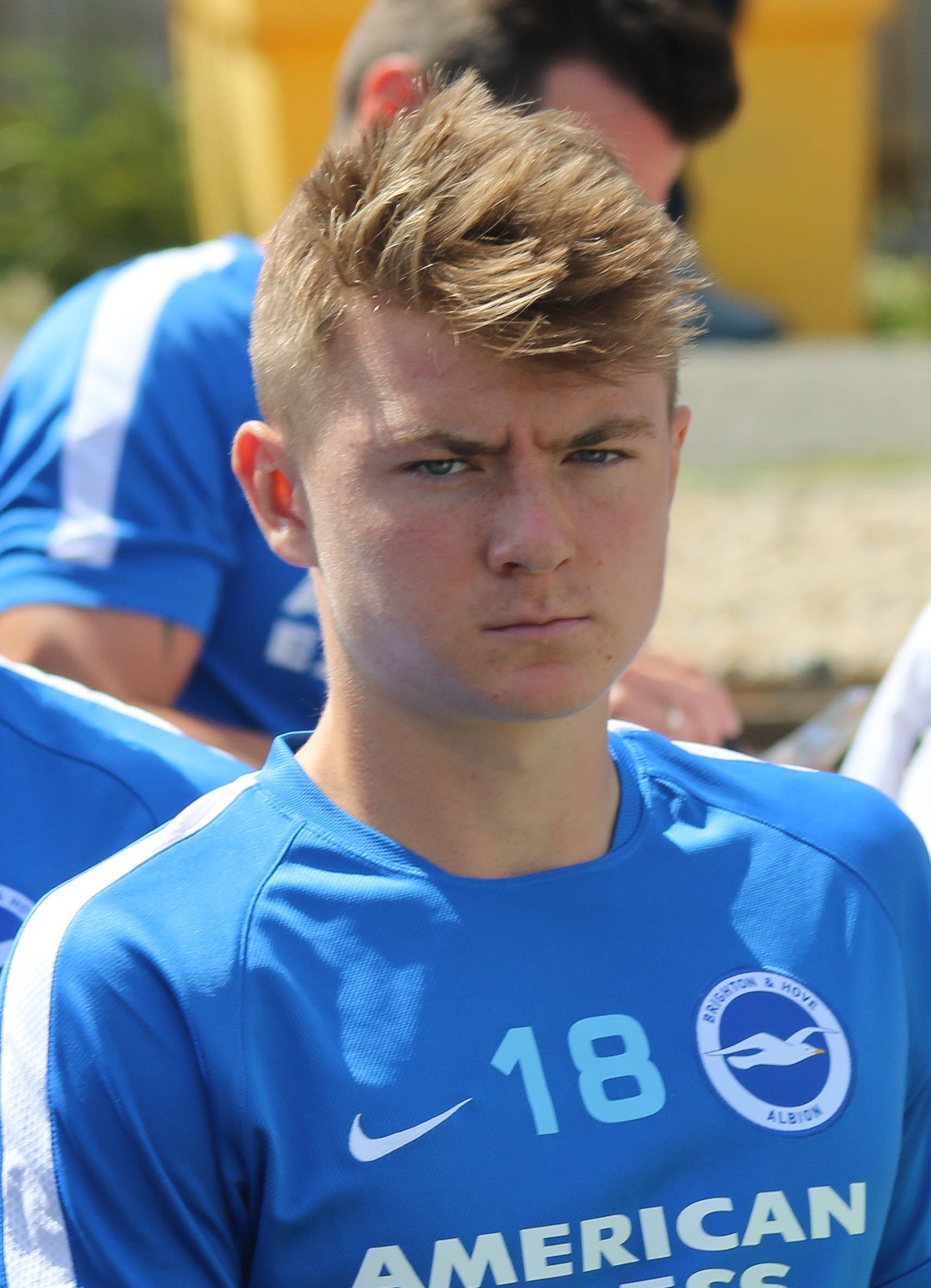 Lewes 0 BHA 0 18 July 2015-040.jpg